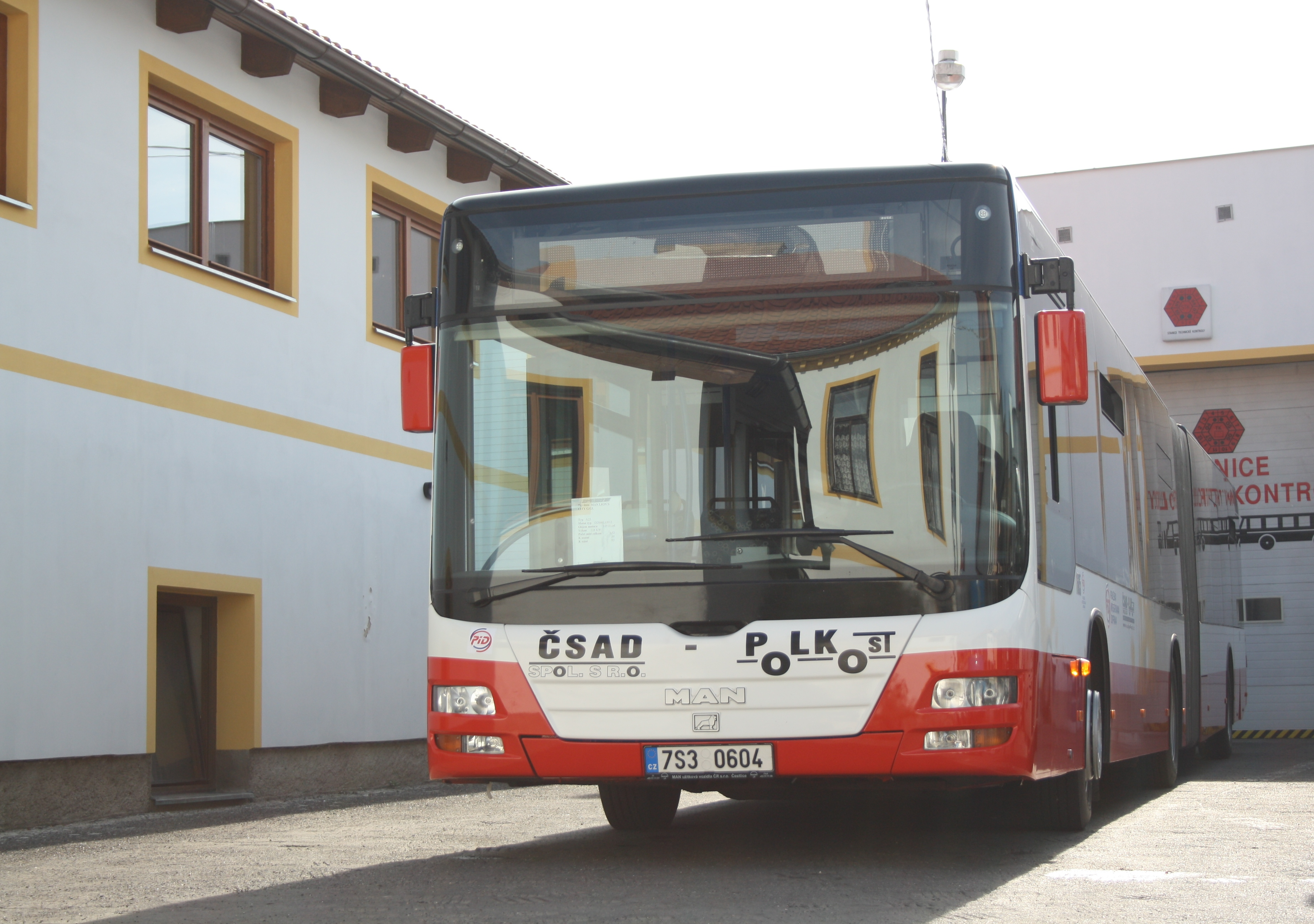 City bus MAN Lion's City of bus operator ČSAD Polkost in PID unified color scheme. The bus was on public display during 10th anniversary of Prague Integrated Transport in the area of Kostelec nad Černými Lesy, where is the main garage of ČSAD Polkost located. Central Bohemian Region, CZ This photograph was taken with a DSLR from WMCZ's Camera grant.